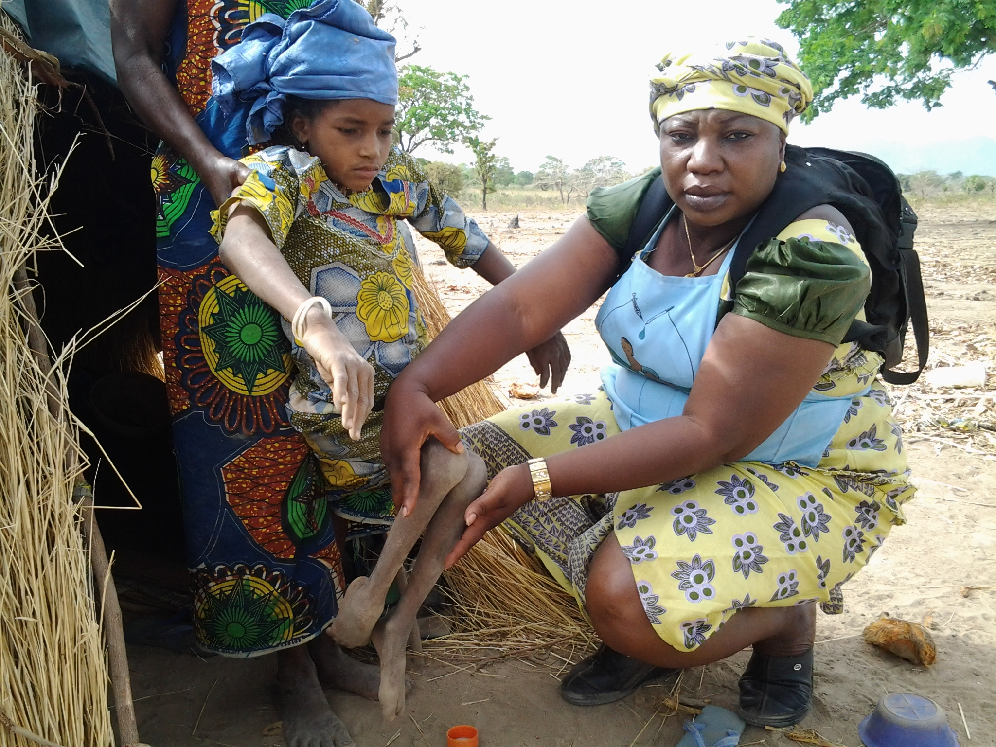 In April 2014, Nigeria FELTP resident Dr. Mariam Florence Ogo examines a 12-year-old child affected by polio during a supportive supervision visit at an underserved mobile settlement in Manjekin, Adamawa, Nigeria. Nigeria FELTP residents are working to eradicate polio from Nigeria through the National Stop Transmission of Polio program. Submitted by Mariam Florence Ogo – Nigeria.